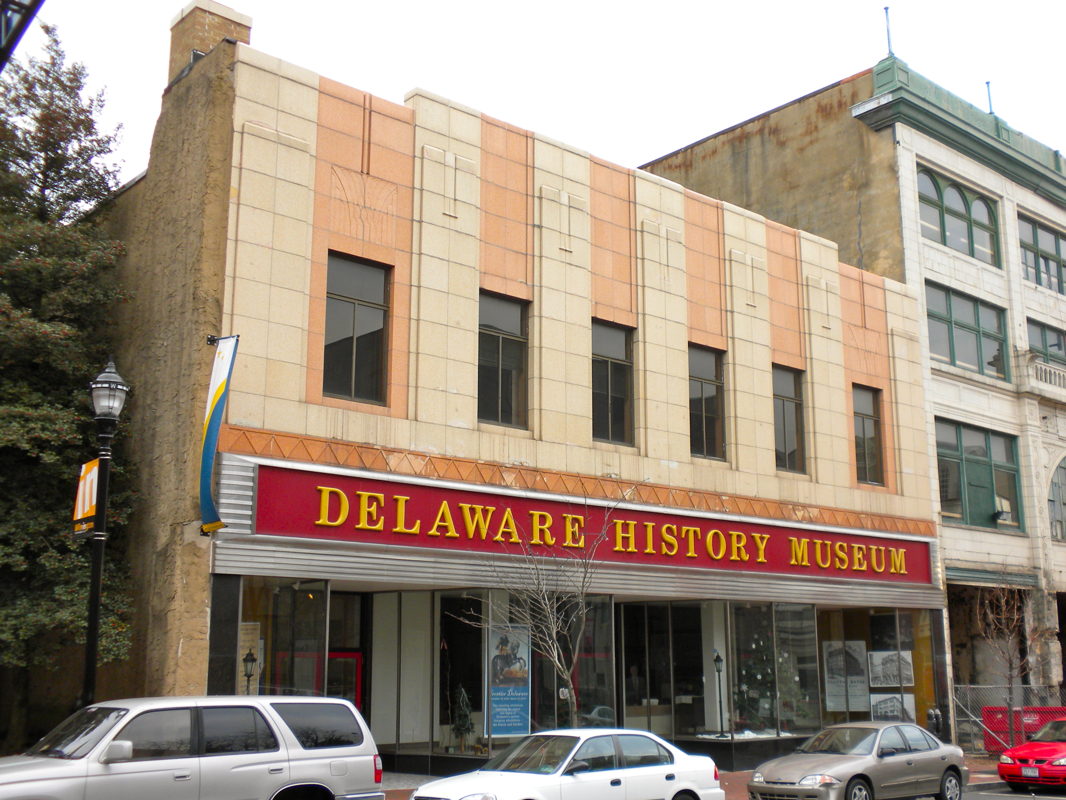 Delaware History Museum on North Market Street in Wilmington, Delaware. Part of a complex of the Delaware Historical Society